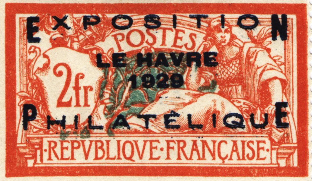 French stamp, Merson type. A surcharge was printed during the philatelic exhibition at Le Havre, 1929, which lasted only a few days. Therefore this stamp is quite rare. Surcharges were common for special events at the beginning of the 20th century.